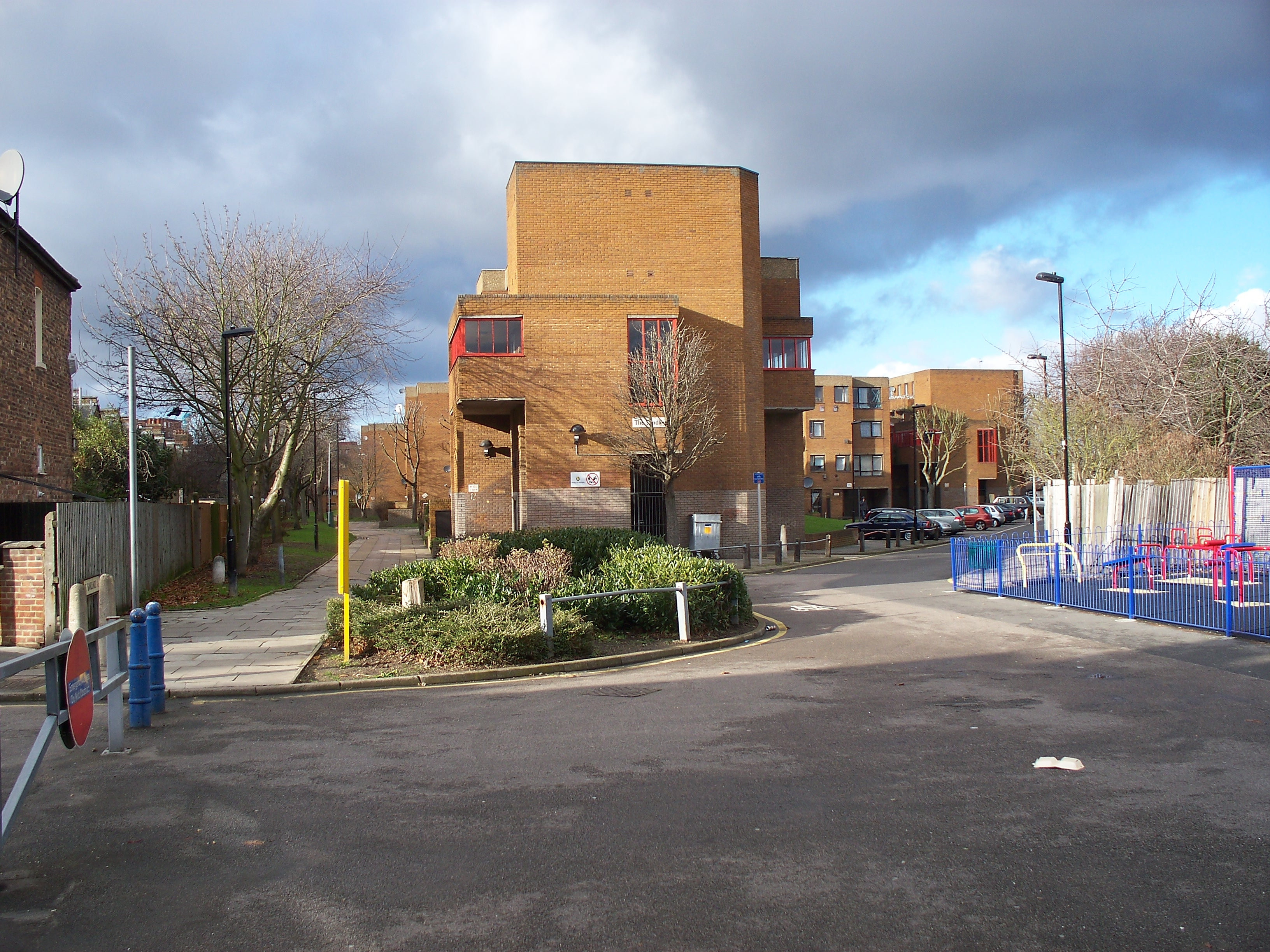 The Sandlings, Noel Park; new flats built on the trackbed of the former Palace Gates Line, London N22. Photograph taken in a public location in the UK of a building on permanent public display, and exempt from copyright under Section 62 of the Copyright Designs & Patents Act 1988 ("it is not an infringement of copyright to film, photograph, broadcast or make a graphic image of a building, sculpture, models for buildings or work of artistic craftsmanship if that work is permanently situated in a public place or in premises open to the public")